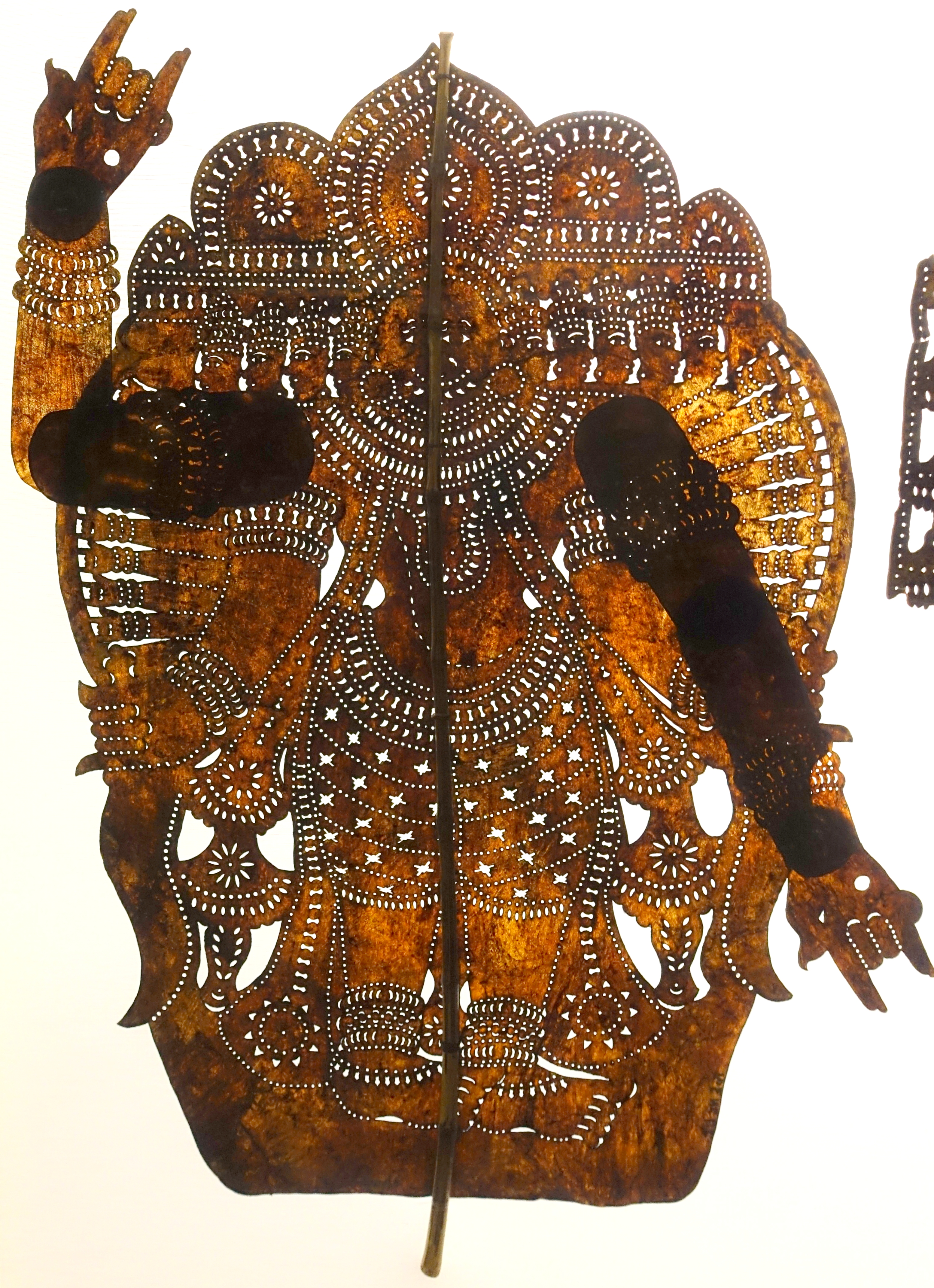 Exhibit in the Museu do Oriente - Lisbon, Portugal. This work is old enough so that it is in the public domain.